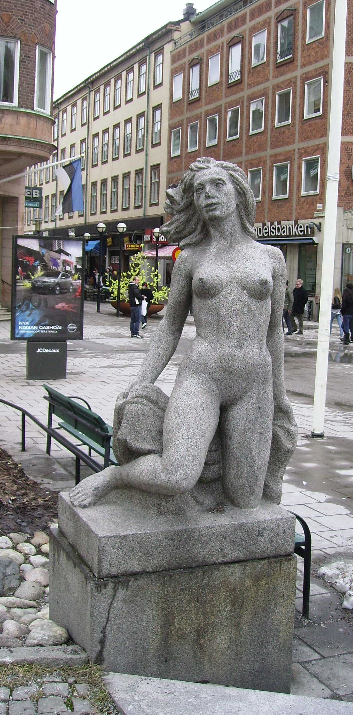 Picture of Arbetets ära och glädje, monument on Fristadstorget in Eskilstuna